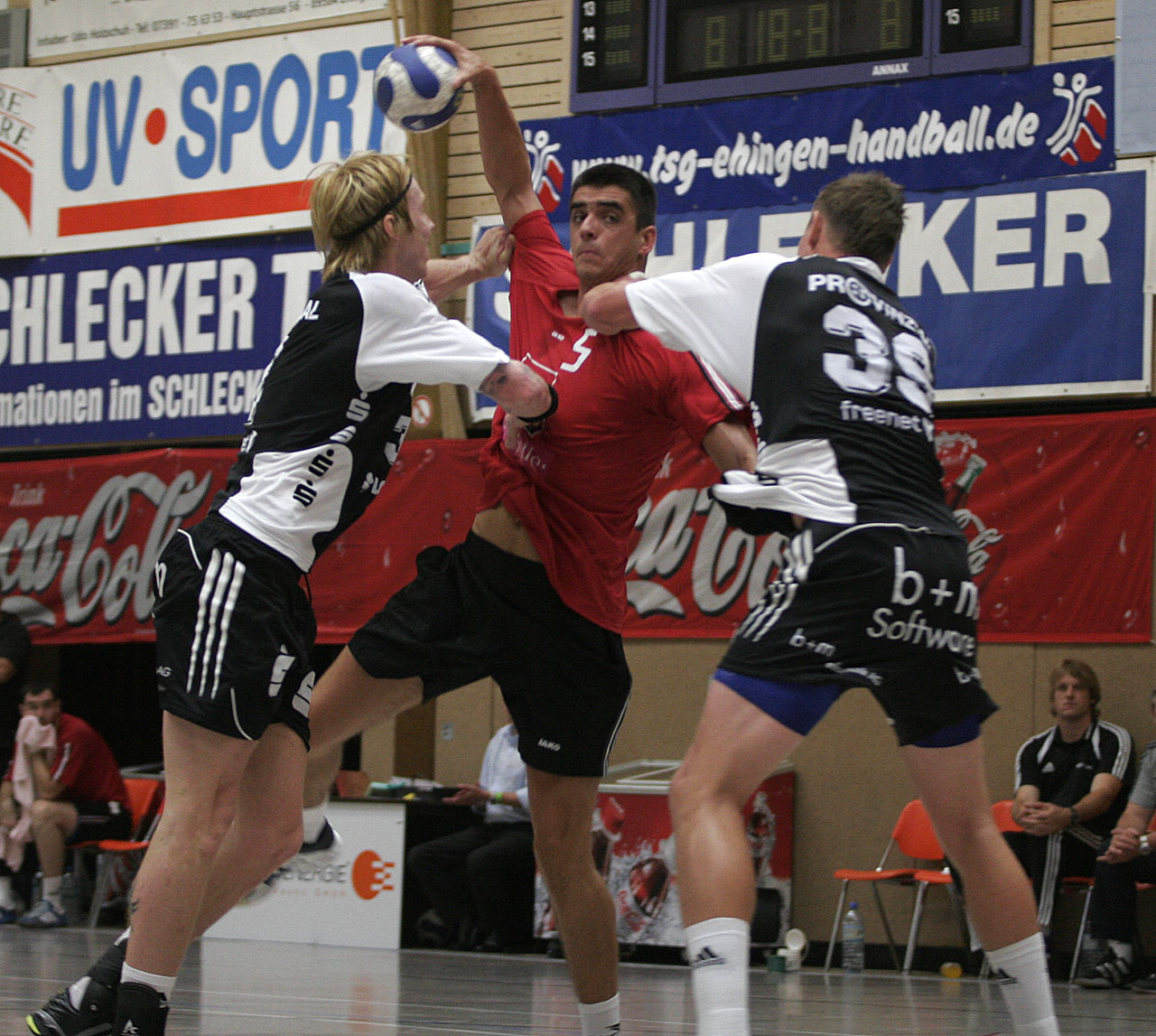 Žarko Šešum, Serbian handball player from KC Veszprém, during the Schlecker Cup 2007 in Ehingen (Germany). Borge Lund an Filip Jicha in the defense (left ot right)